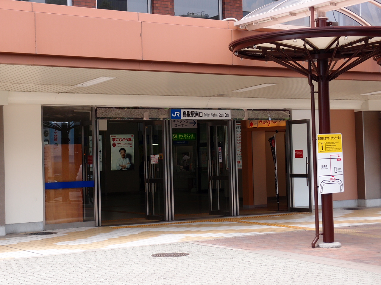 The South gate of Tottori Station in Japan.